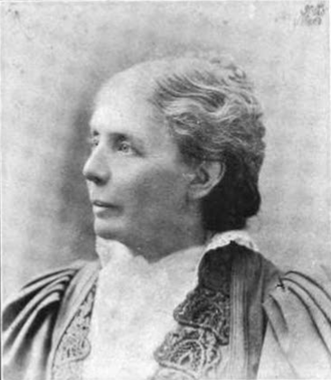 Mrs. A. H. Van Pelt Pacific Coast Women's Press Association Photographer: Marceau URL